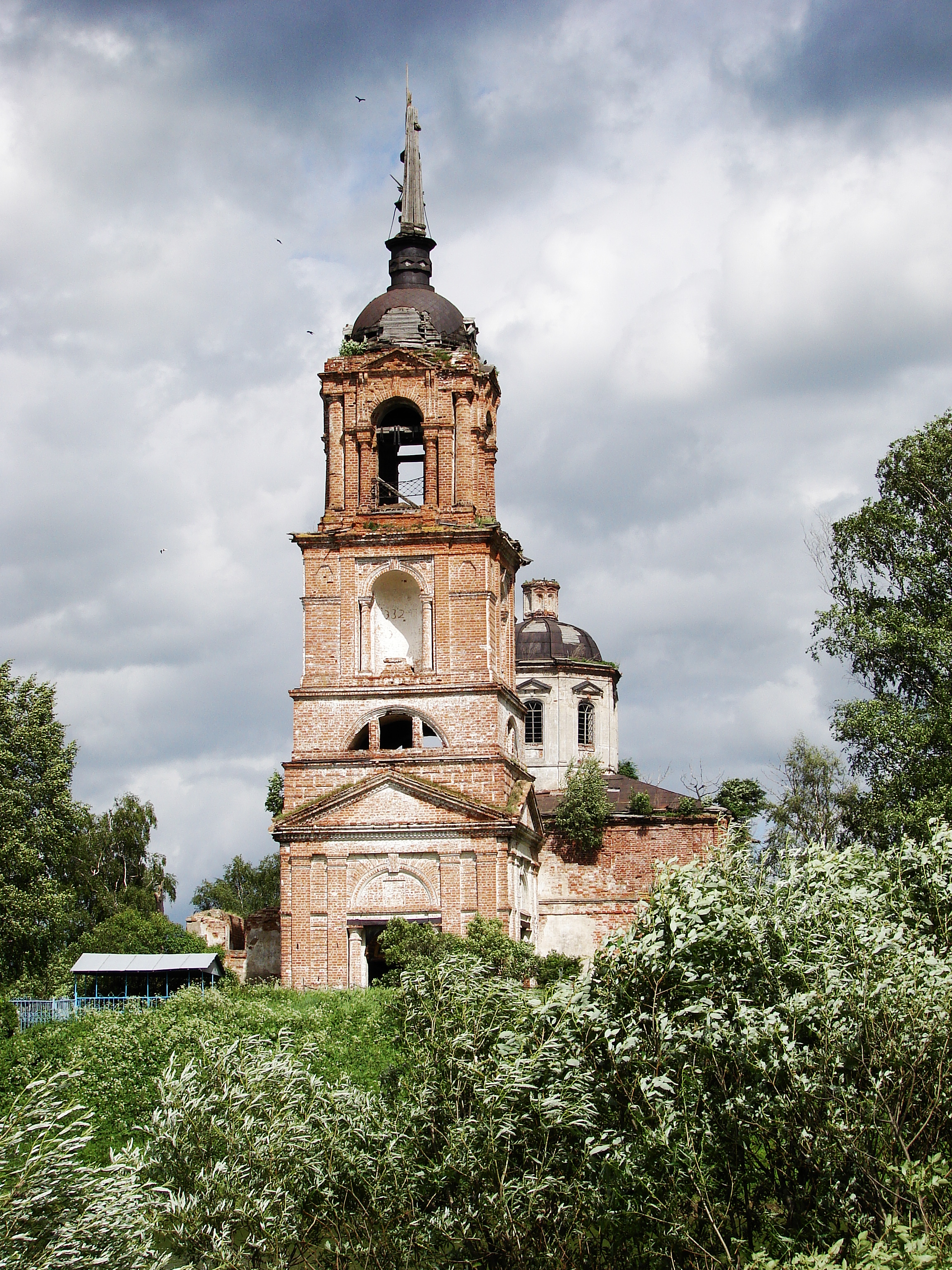 Russia, Vologda, Saint Nicholas church